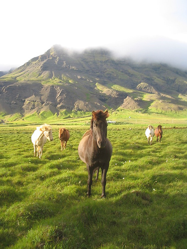 icelandic horses